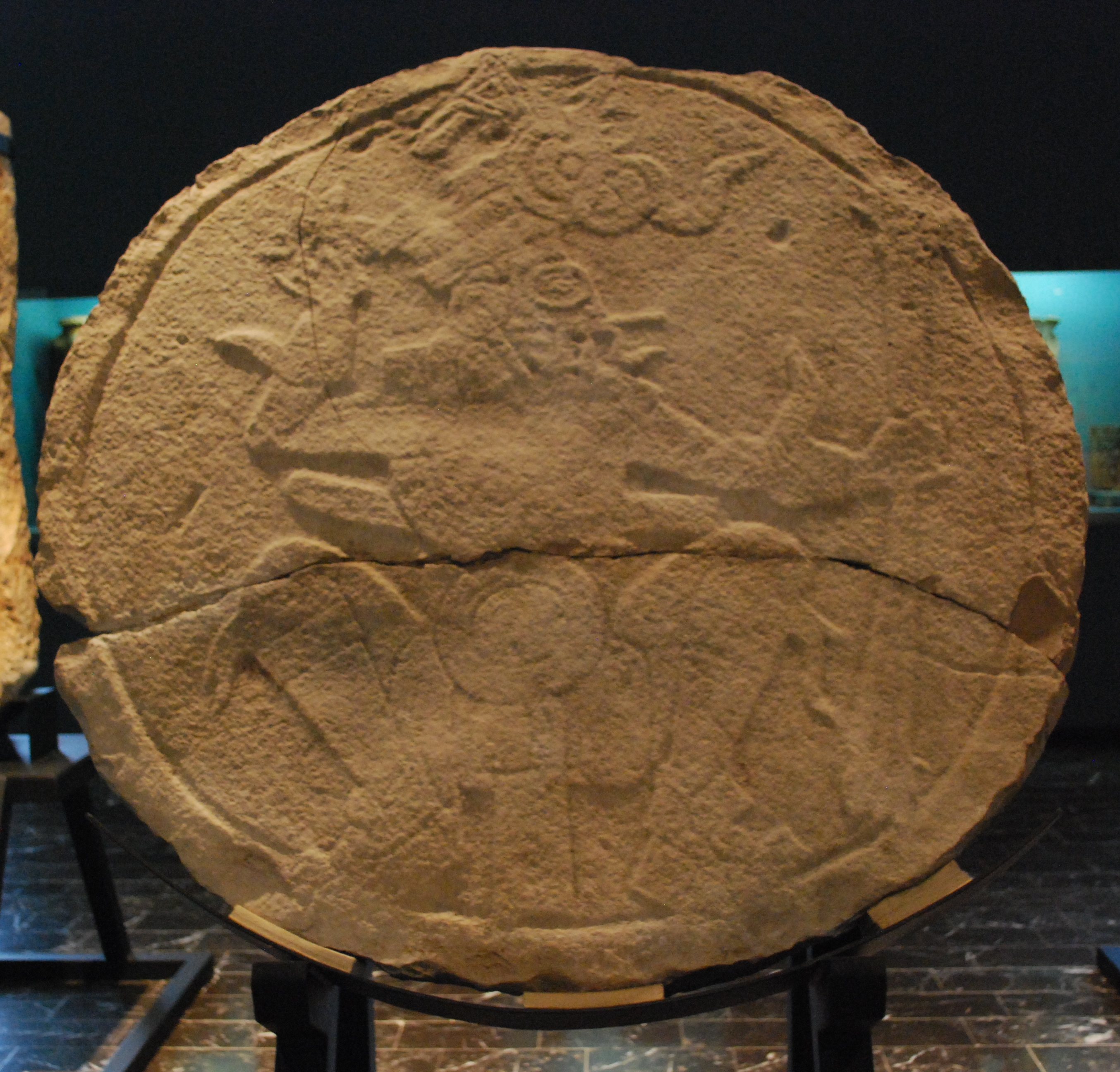 Mesoamerican ballcourt marker from Tenam Puente at the Regional Museum in Tuxtla Gutierrez, Chiapas, Mexico